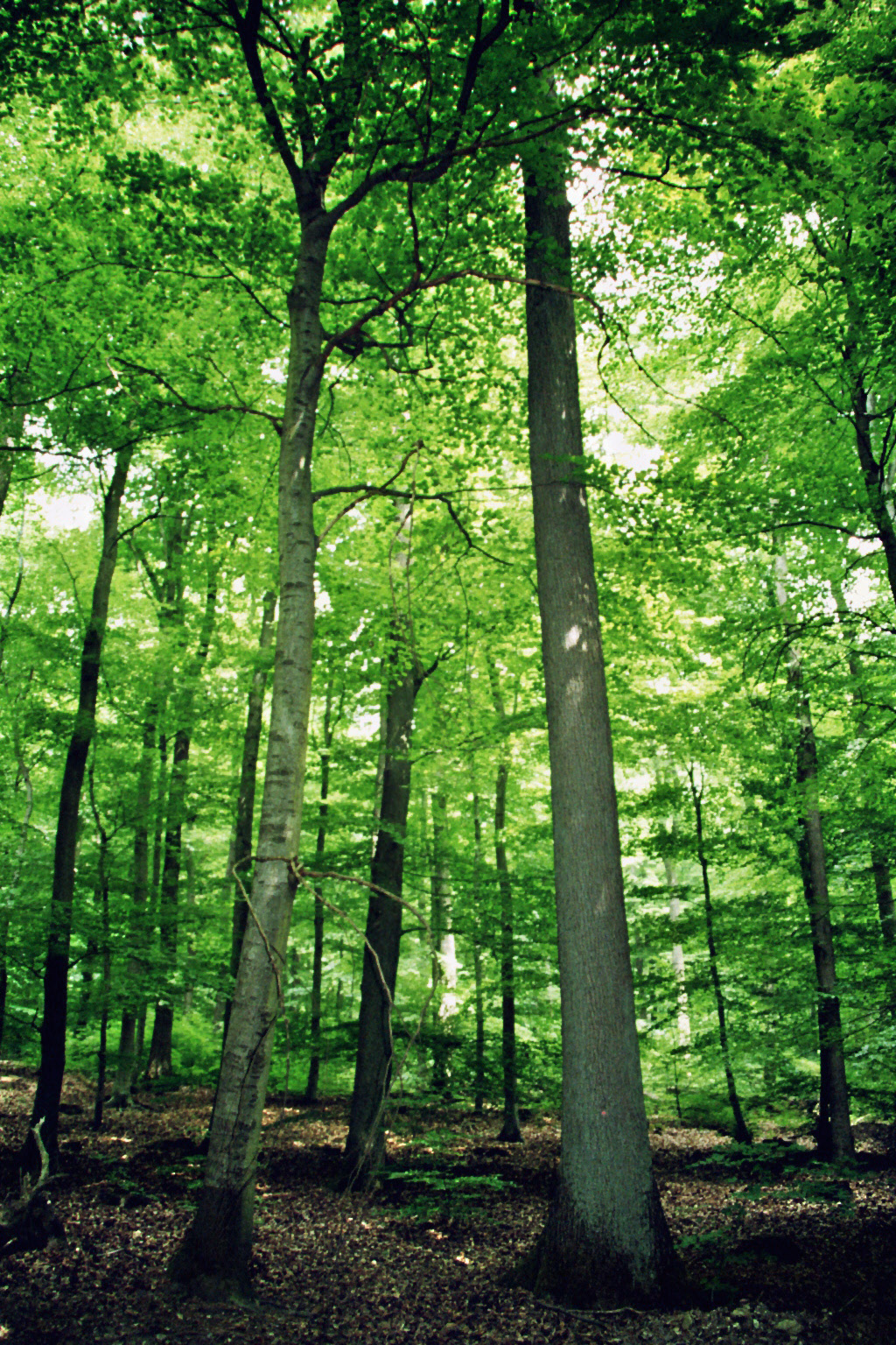 Quercus petraea marked as a Z-Baum (small red point) in a forest of the Forstamt Chausseehaus, Wiesbaden, Germany.